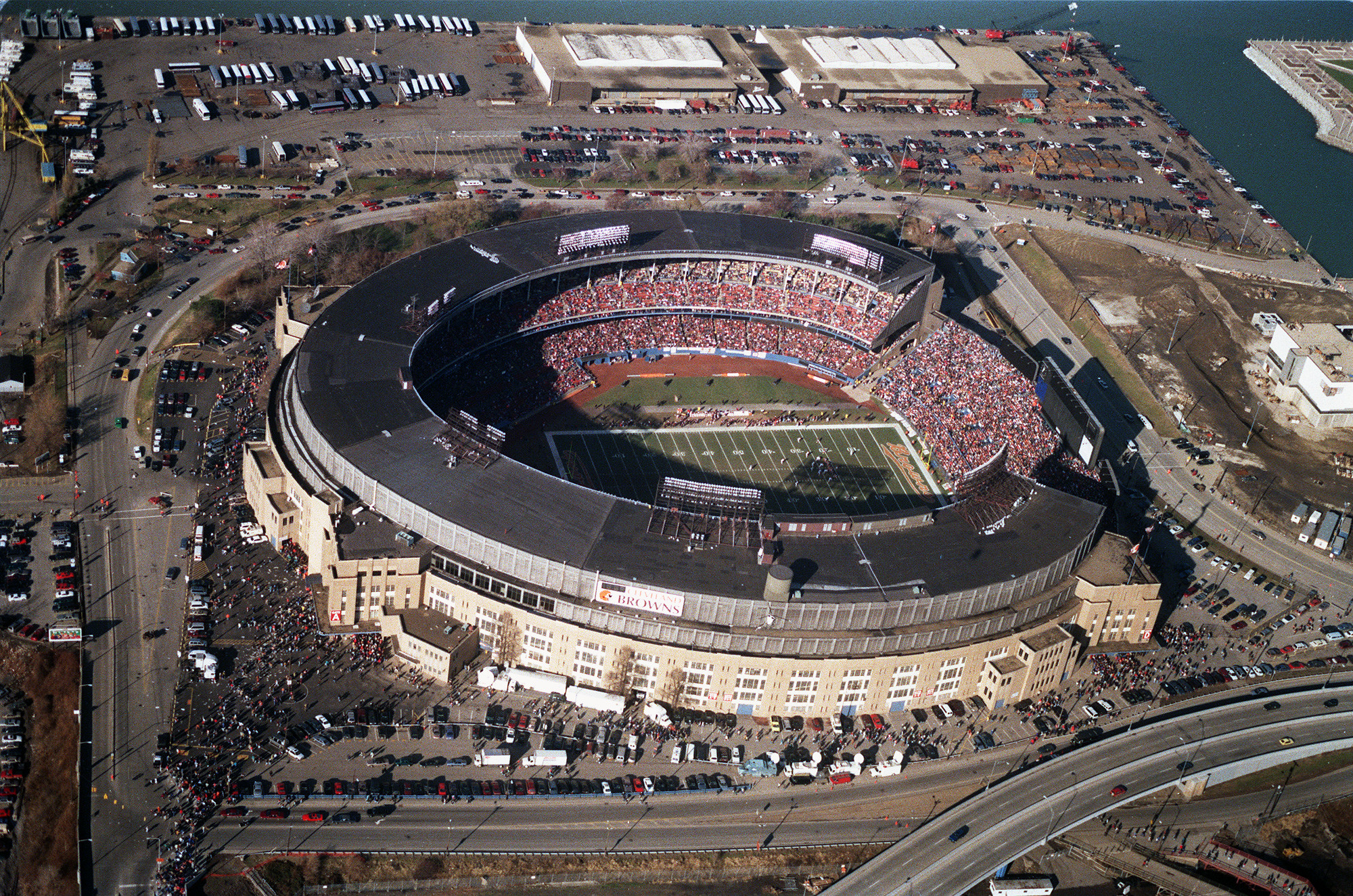 The Cleveland Browns Stadium, during the last game played in the stadium, December 17, 1995, during a game against the Bengals. The stadium was later demolished after the Browns left town, and then the new stadium was built. (AP/Paul M. Walsh)